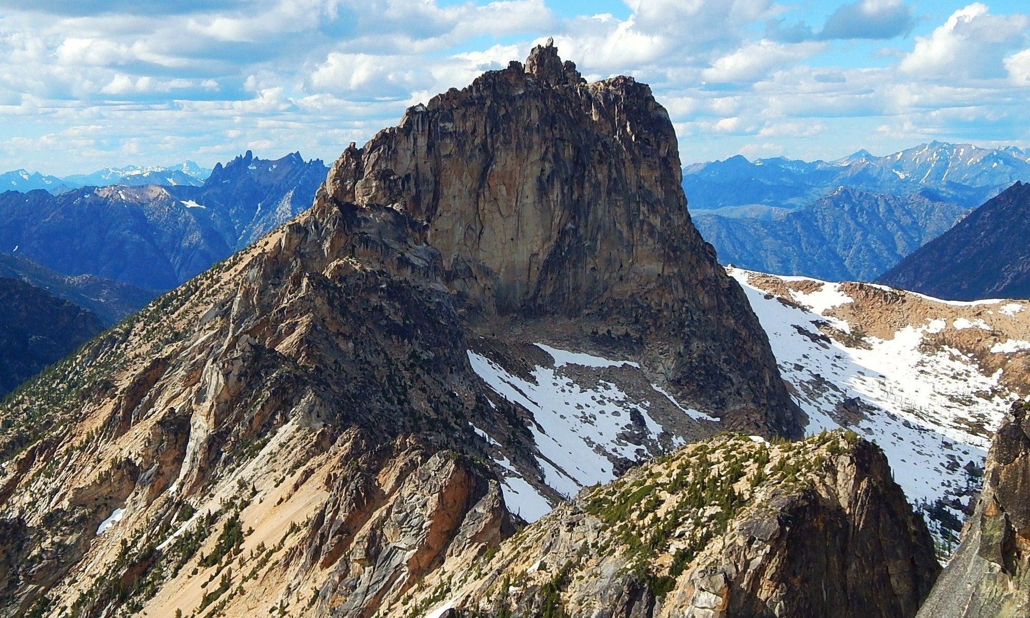 Big Kangaroo is the high point on Kangaroo Ridge east of Washington Pass in the North Cascades of Washington state.